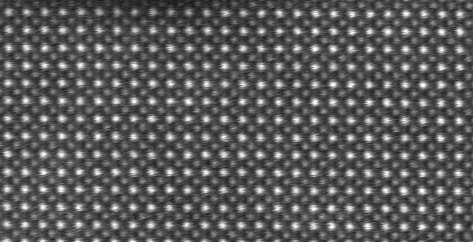 Atomic resolution STEM-HAADF image of SrTiO3. Brighter atoms are Sr and darker ones are Ti.